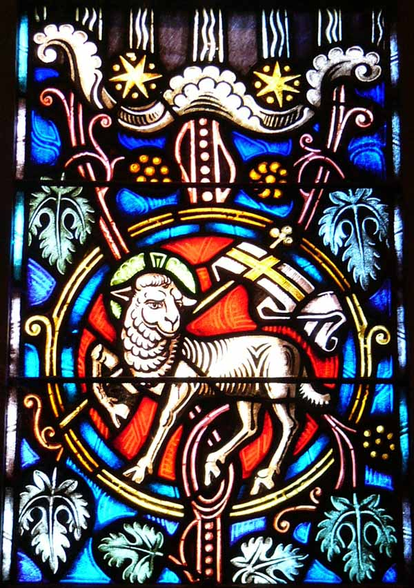 Stained glass image of the Lamb of God (Agnus Dei) with a Christian banner. photo by John Workman in St. Ignatius church in Chestnut Hill, Massachusetts.